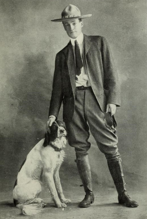 Picture of Stewart Edward White